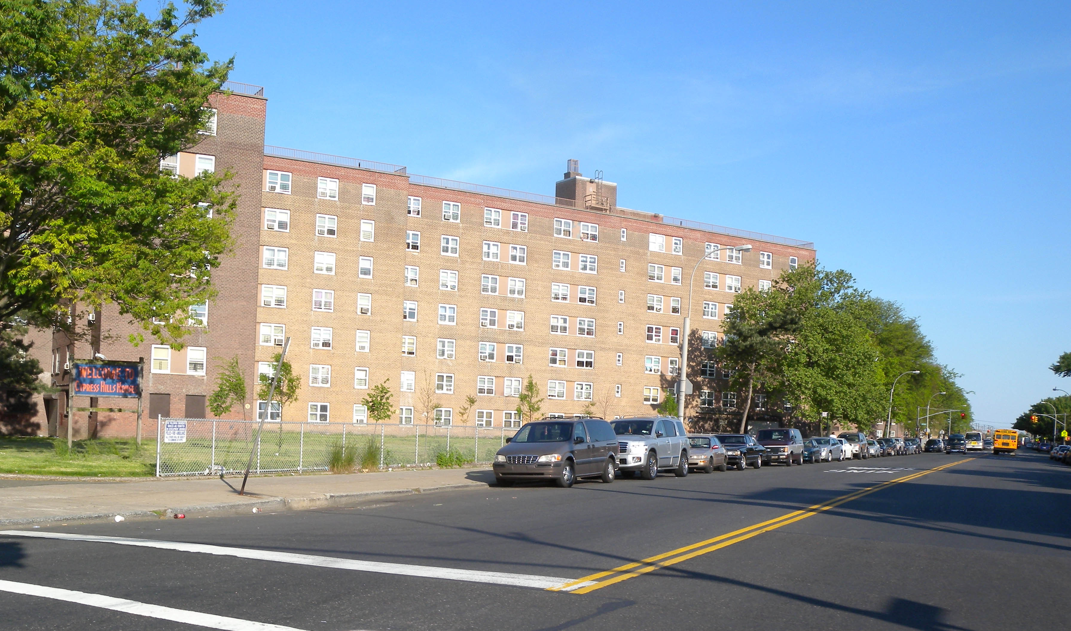 Looking southeast at Cypress Hills Houses along Fountain Avenue in City Line, Brooklyn on a sunny afternoon.